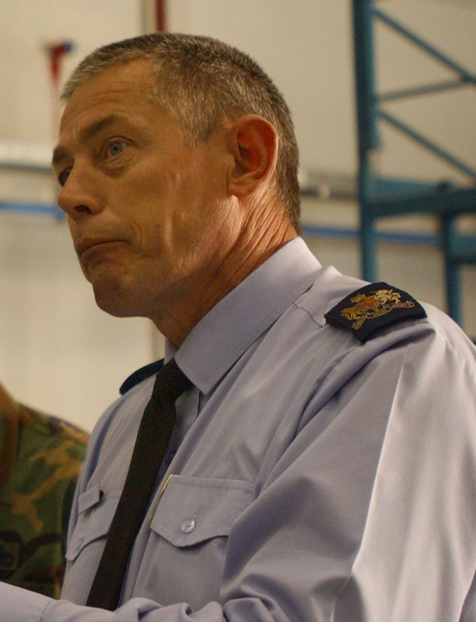 Warrant Officer Lindsey Morgan from British Royal Air Force talks to Airman inside the 100 MXS hanger building 814 while RAF Mildenhall Command Chief Master Sergeant Michael Warner, Chief Master Sergeant Gregory Blue, and Senior Master Sergeant John Van Duser from 100 MXS listens April 23, 2007 in RAF Mildenhall. (U.S Air Force photo by Airman Brad Smith)